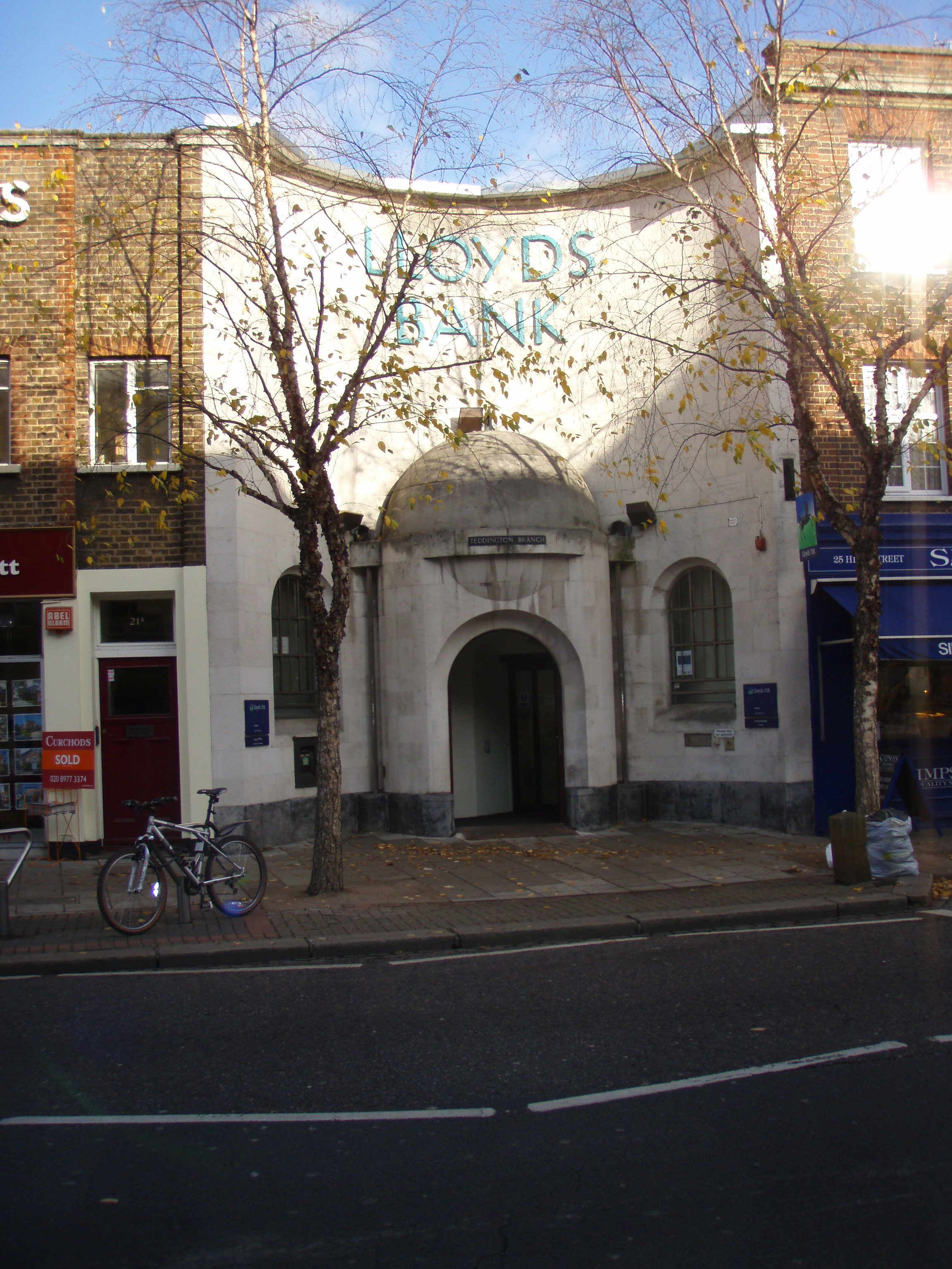 Photo of Teddington's Lloyds Bank